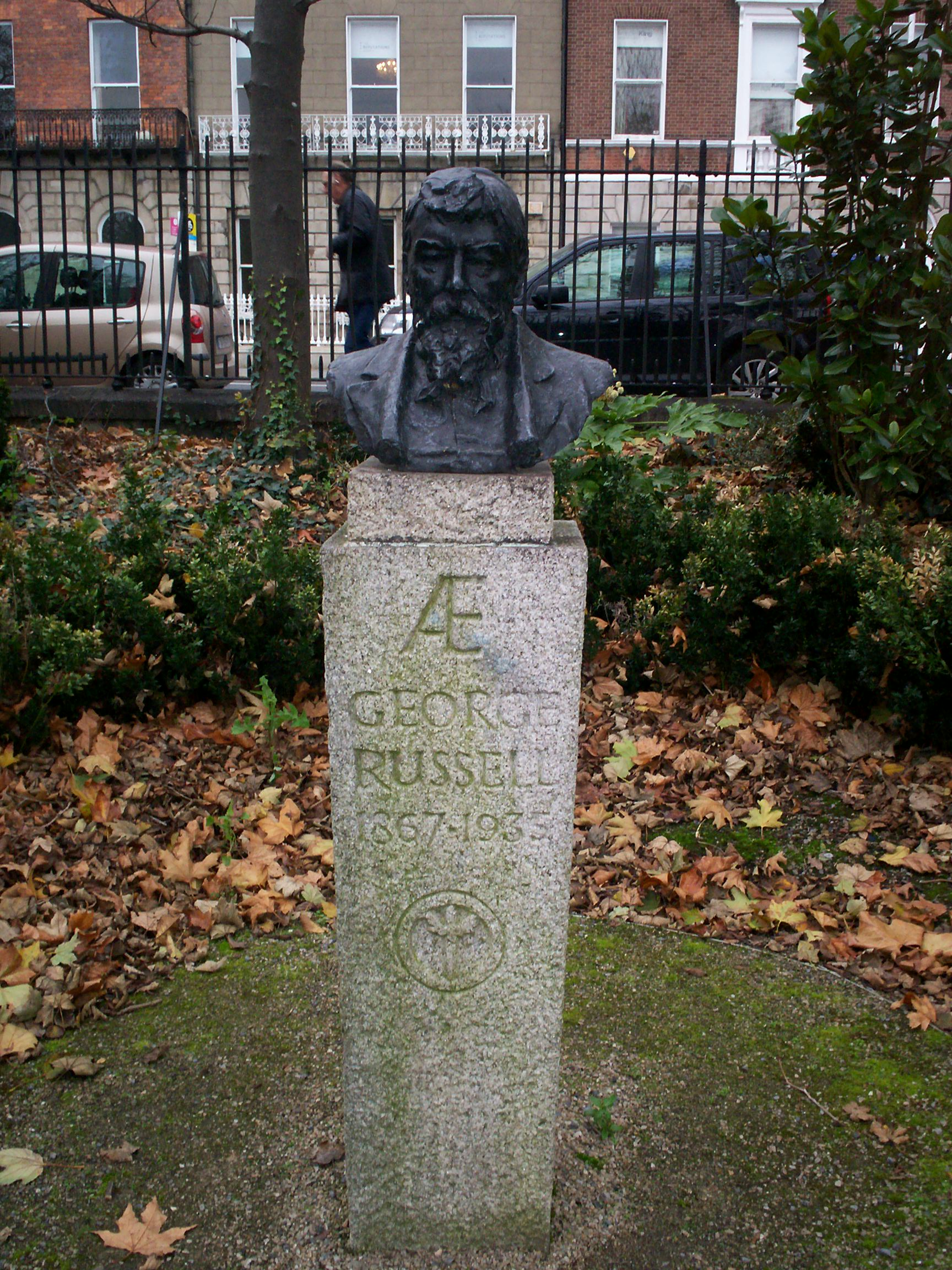 Sculpture of George William Russell (AE) in Merrion Square, Dublin. 1985 Jerome Connor